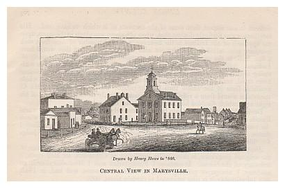 Marysville Square, 1846